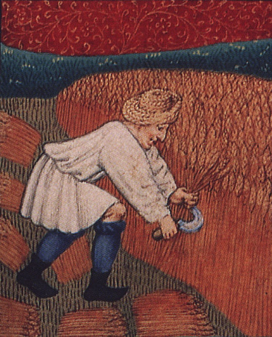 July/Leo, Book of Hours, Bodleian Lib. MS Auct. D.inf.2.11., fol 6r (Book of Hours produced in Normandy in the mid 15th century, probably for export to England, with work by an artist known as the Master of Sir John Fastolf)